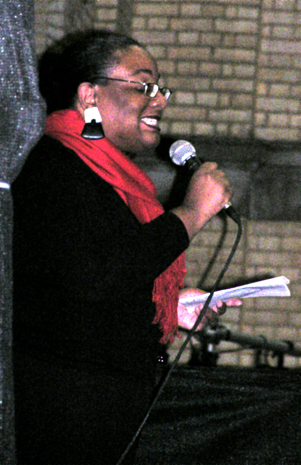 Diane Abbott singing "Where have all the flowers gone?" to a rally at the third European Social Forum. Picture taken by JK the Unwise.